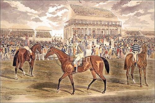 Blink Bonny, 1857 Derby winner. In the paddock at Epsom. Etching by Charles Hunt.